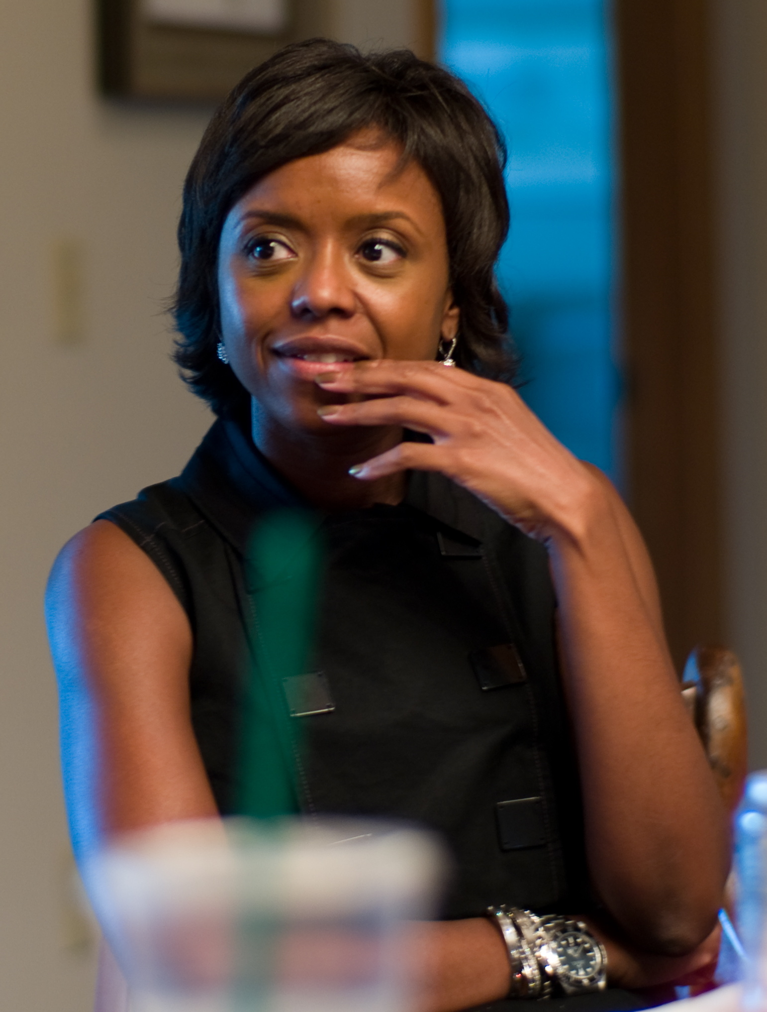 Mellody Hobson